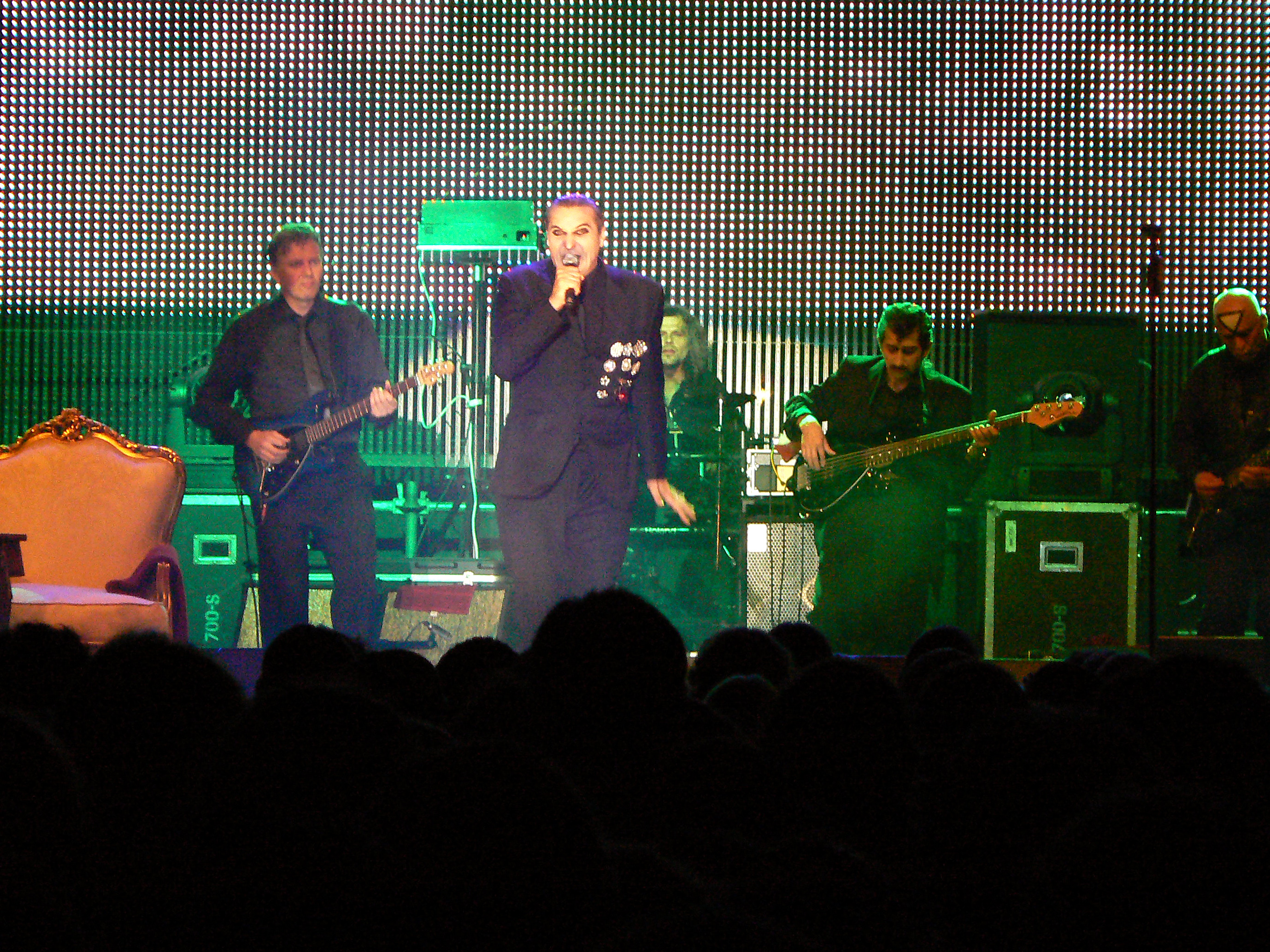 Lithuanian rock band Antis at festival "Capital Days" in Vilnius.